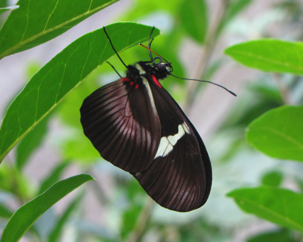 Clysonymus Longwing (Heliconius clysonymus), ventral view, Arvi Park, Medellin, Colombia